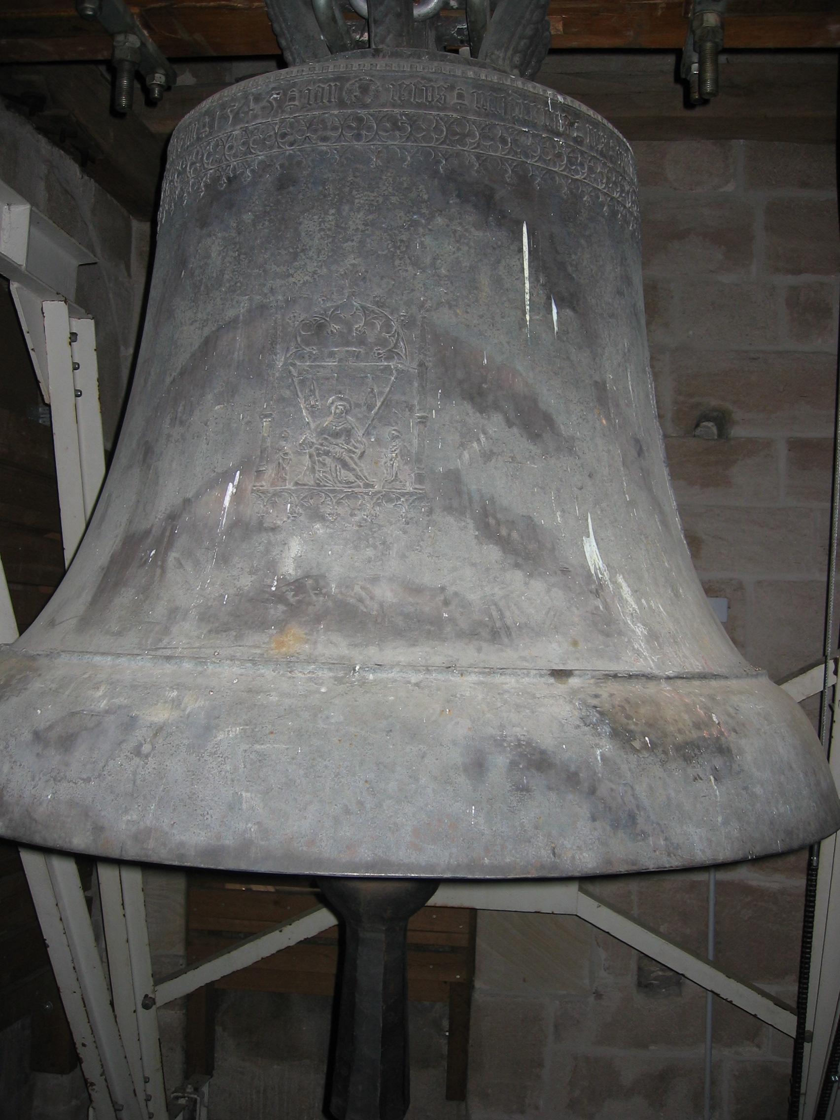 "Susanna" the oldest bell of the Basilica of St. Vitus (Ellwangen)